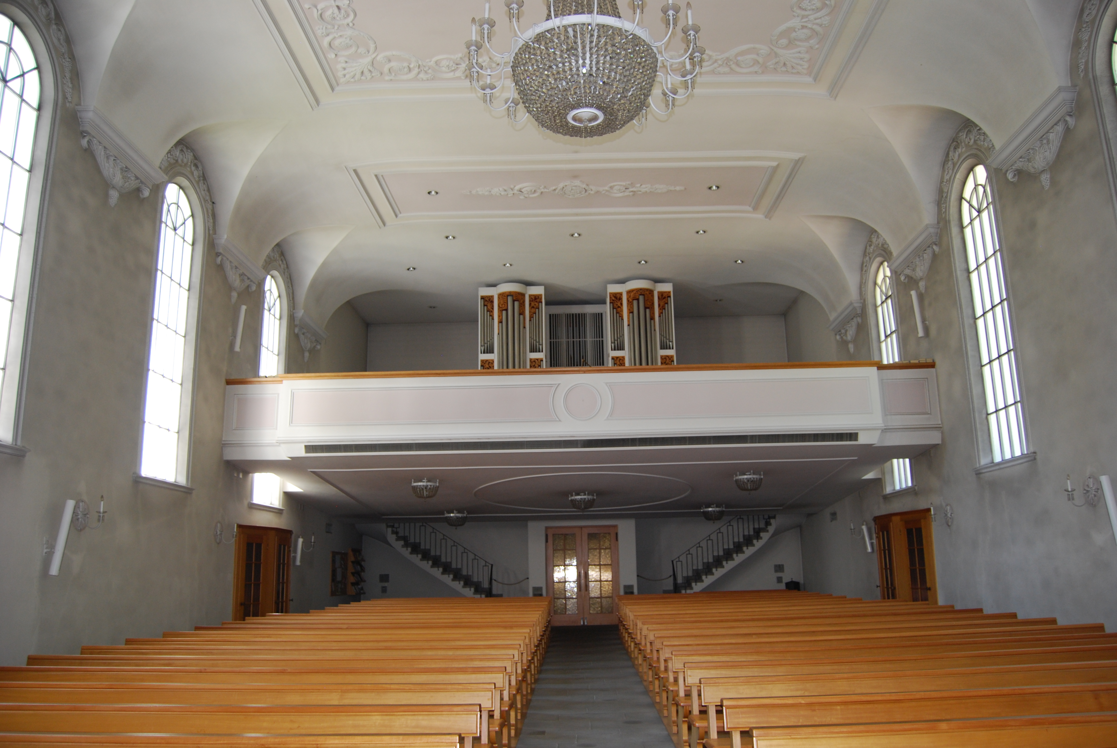 Catholic church of Rickenbach, canton of Thurgovia, Switzerland